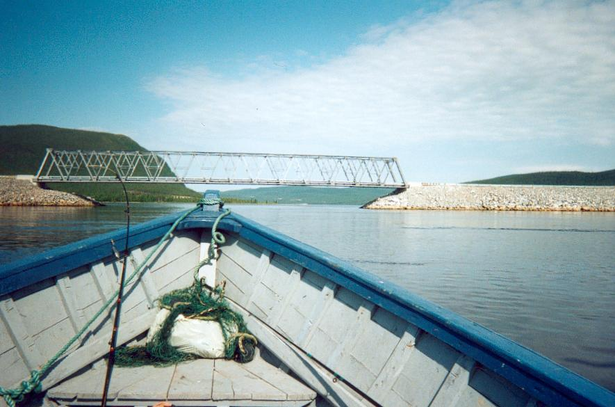 TRANS - LABRADOR HIGHWAY BRIDGE, PORT HOPE 26TH JULY 2002 Hope Simpson Off The Beaten Path Pritchard